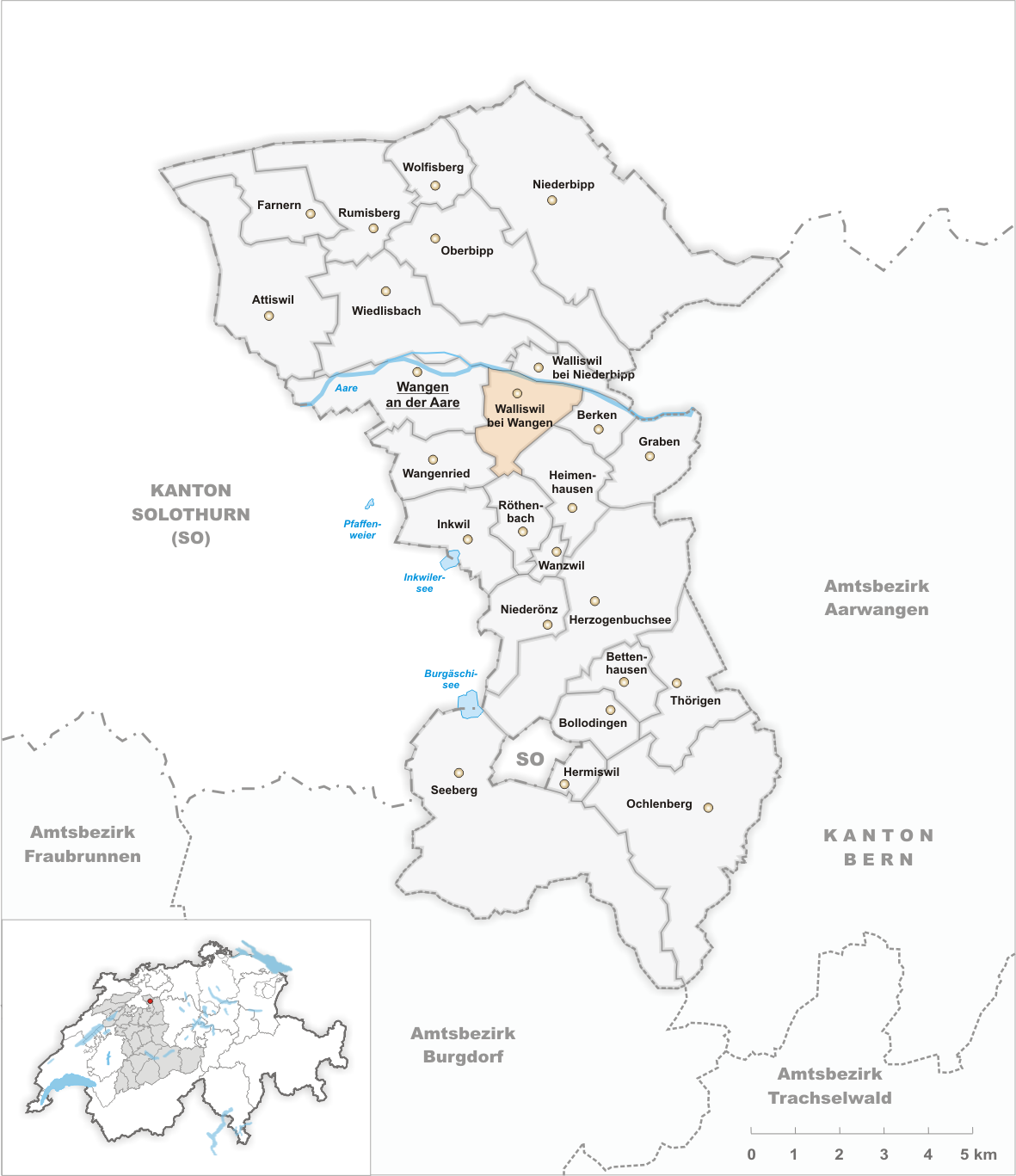 Municipality Walliswil bei Wangen